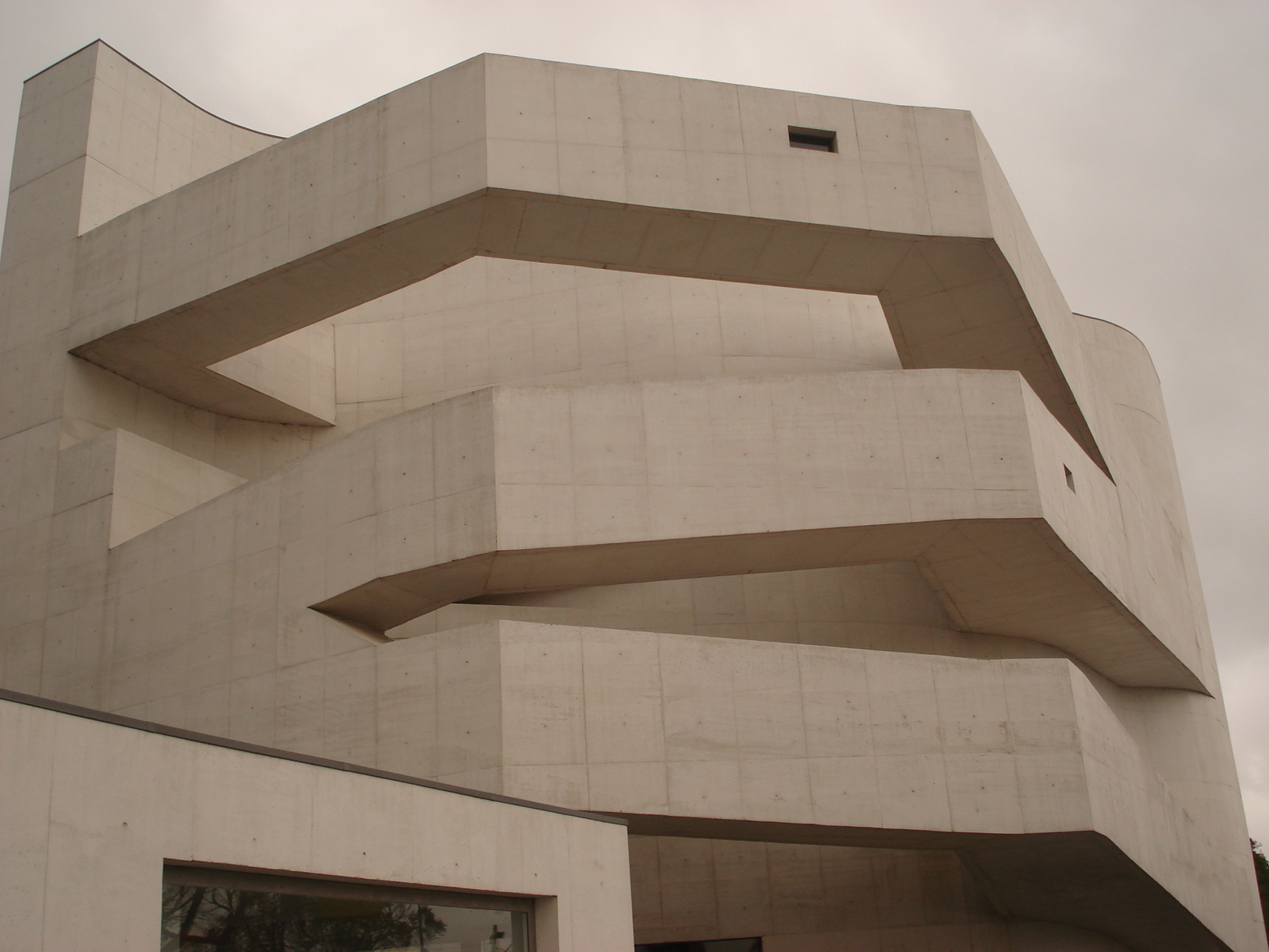 Iberê Camargo Fundation, in Porto Alegre, Brazil